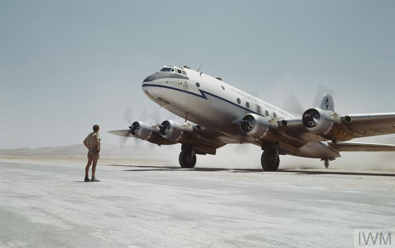 Handley Page Hastings C.1 TG587 of No 511 Squadron taxis across a dusty airfield at Amman, Jordan, in July 1958, bringing supplies or reinforcements to British forces in the country during Operation Fortitude, the bolstering of Jordanian defences. Catalogue number RAF-T 725 Part of MINISTRY OF DEFENCE ROYAL AIR FORCE POST 1945 OFFICIAL COLLECTION